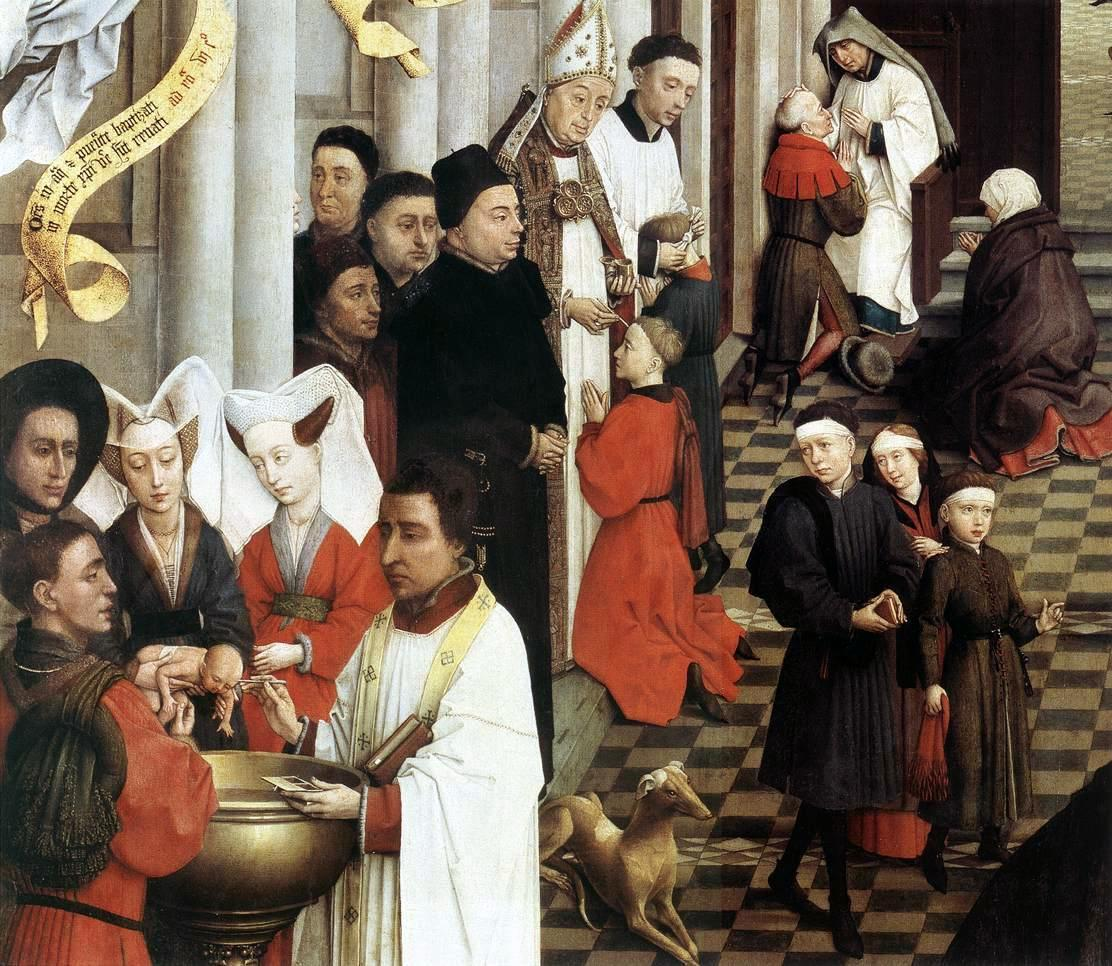 Seven Sacraments Altarpiece - detail, left wing